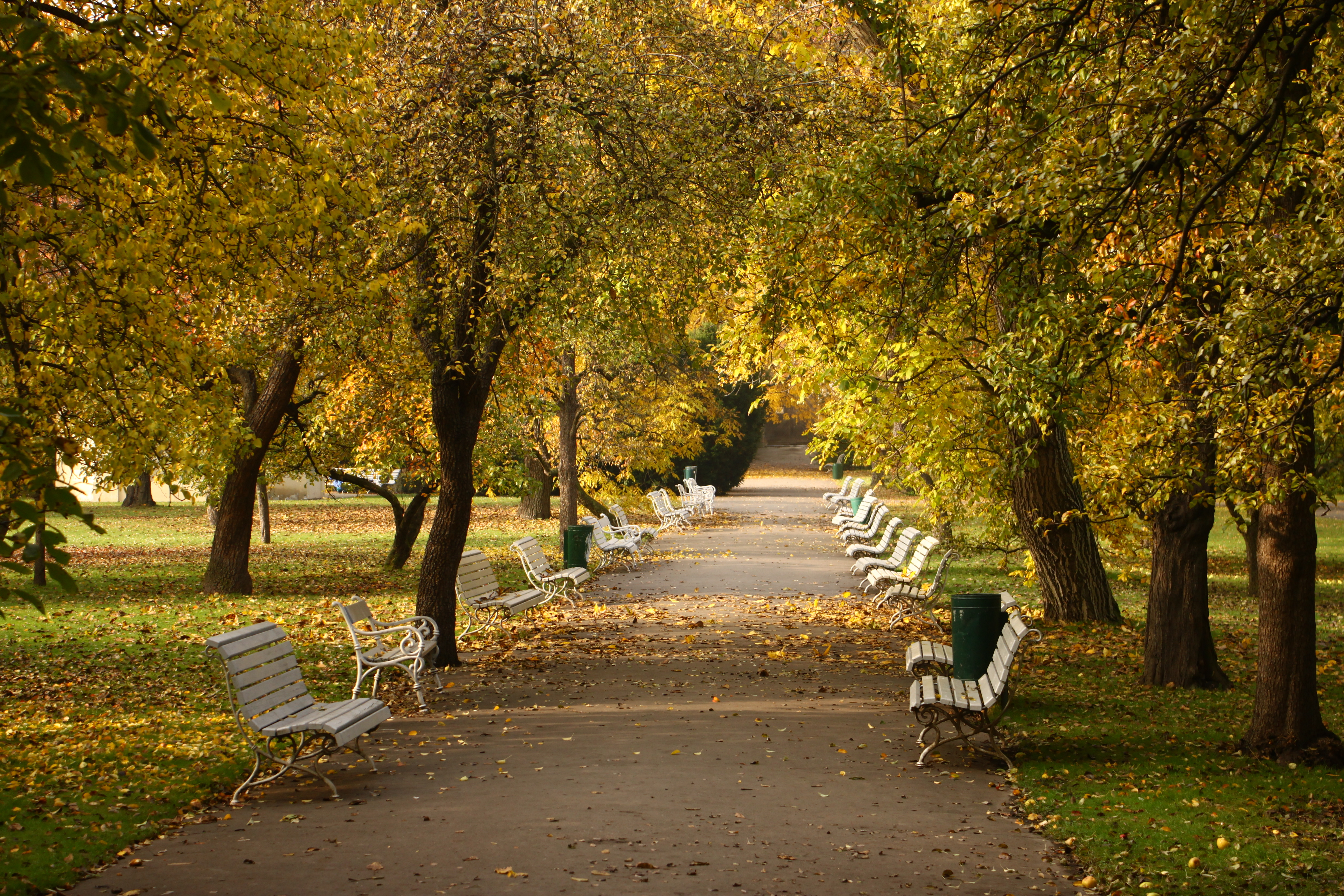 Autumn in Vojanovy sady garden, Prague, CZ